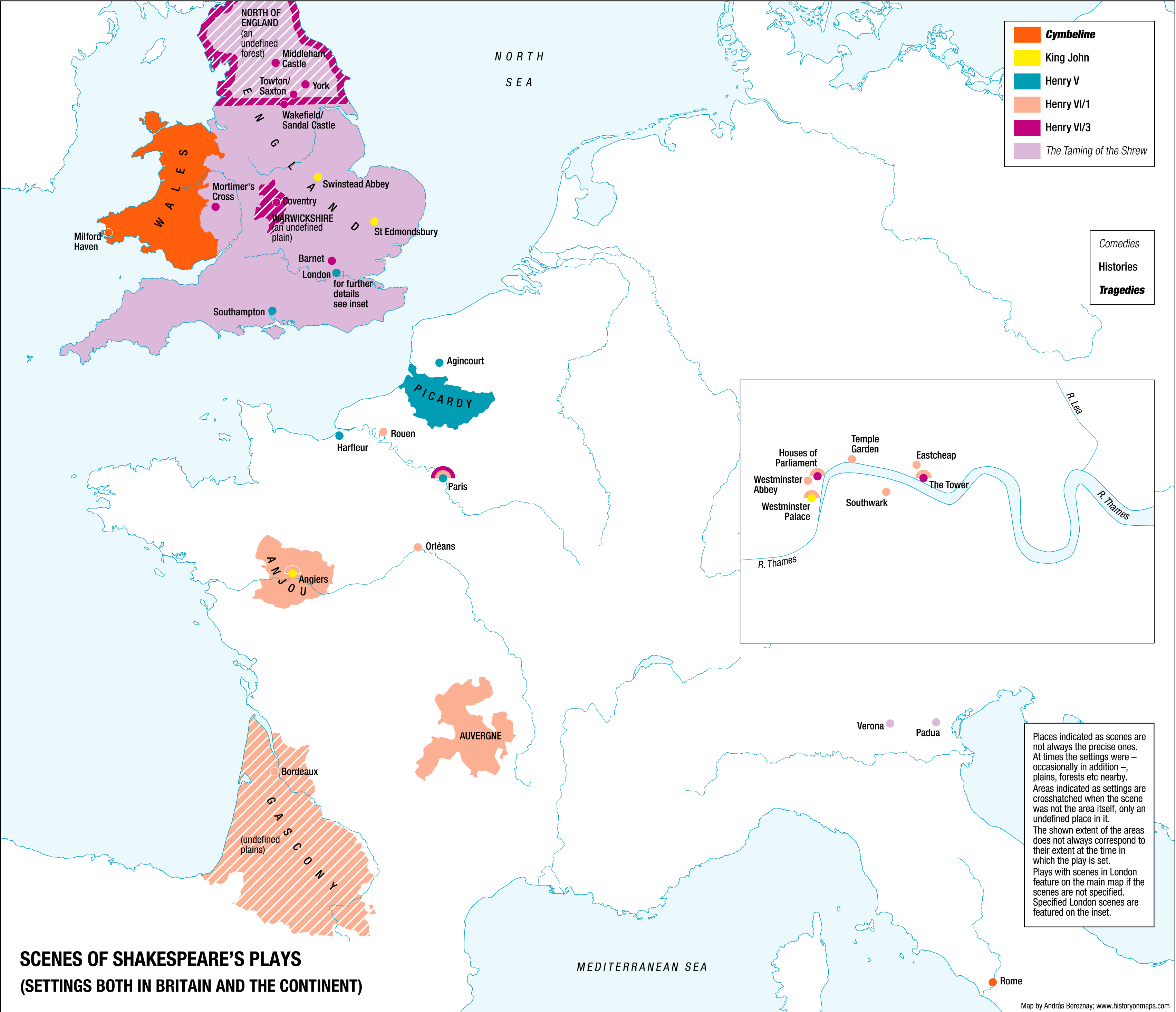 map of Shakespeare's plays with scenes both in Britain and abroad